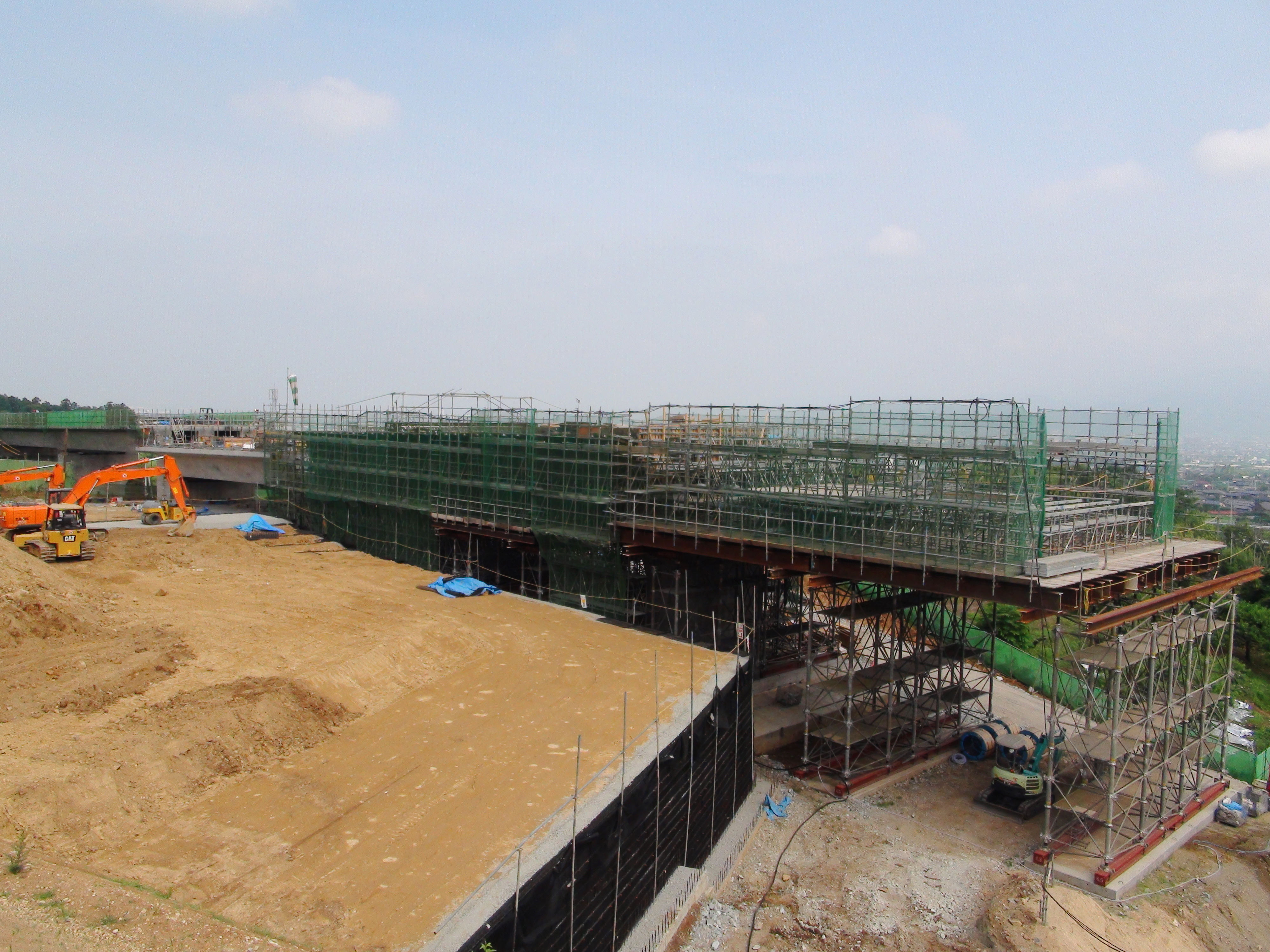 The ConstructionViaduct of Chūō Shinkansen near Kofu City Yamanashi